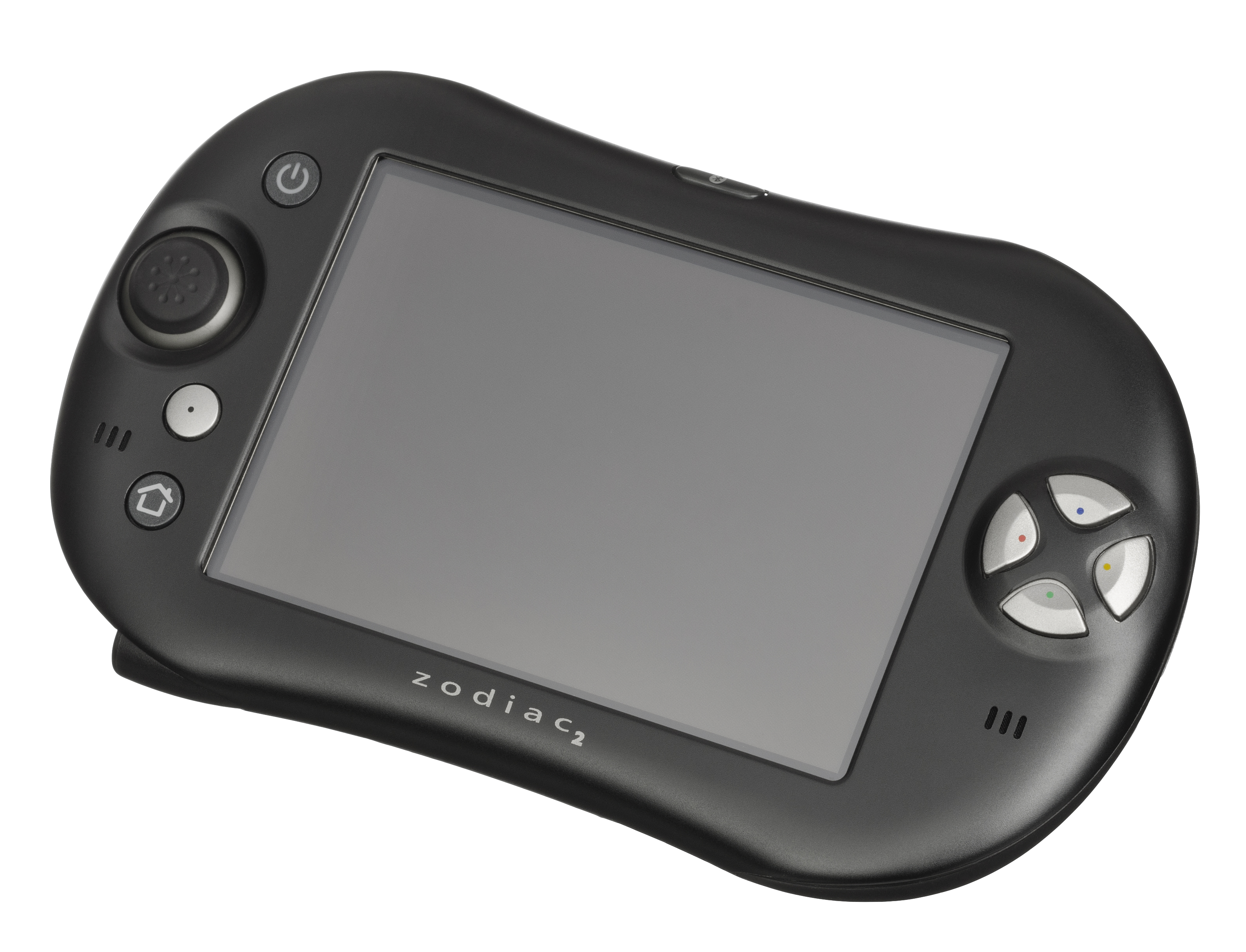 The Tapwave Zodiac 2, a handheld gaming console/personal assistant hybrid from 2003.